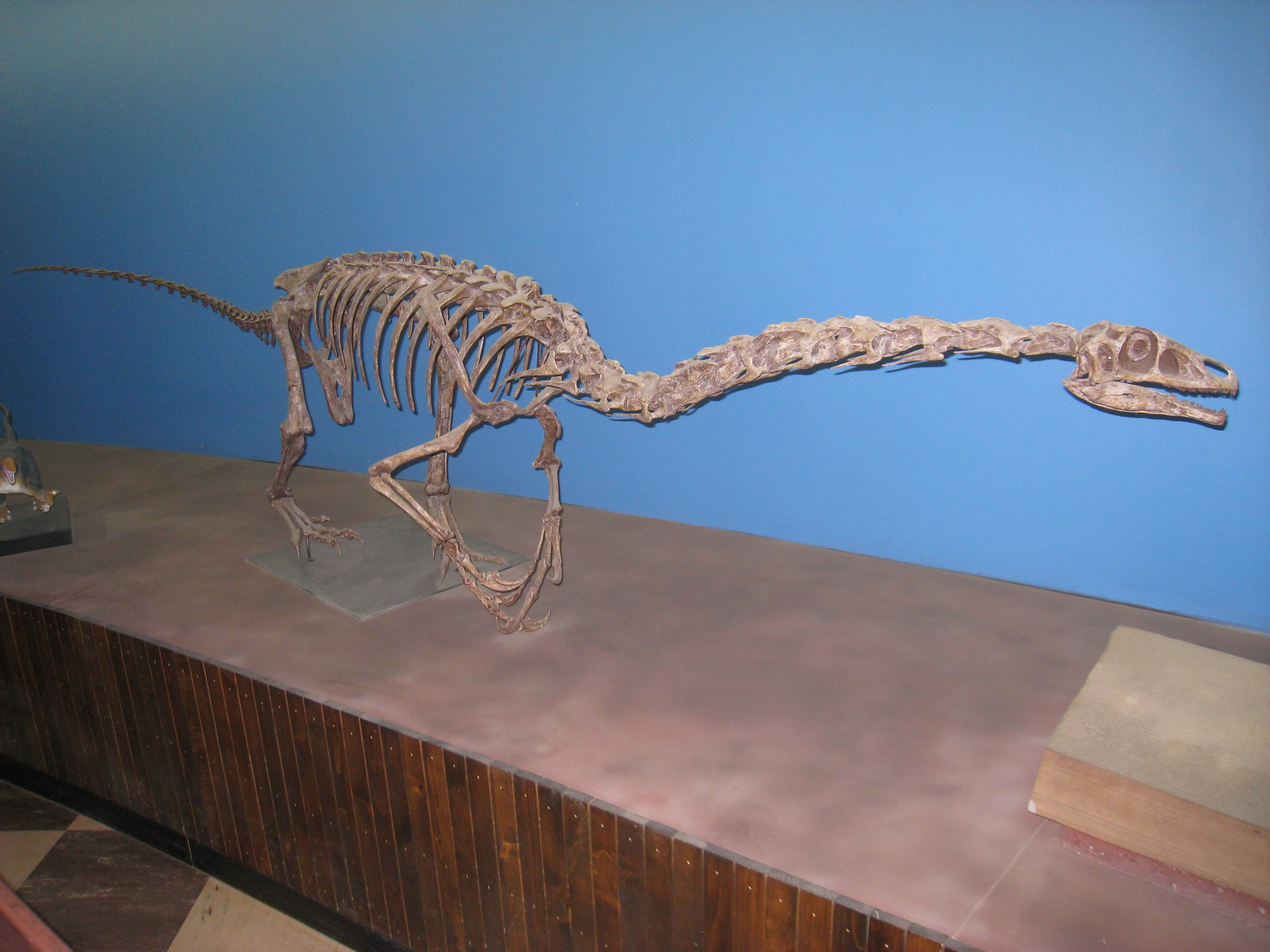 Falcarius utahensis fossil in the Utah Museum of Natural History, Salt Lake City, Utah, USA.